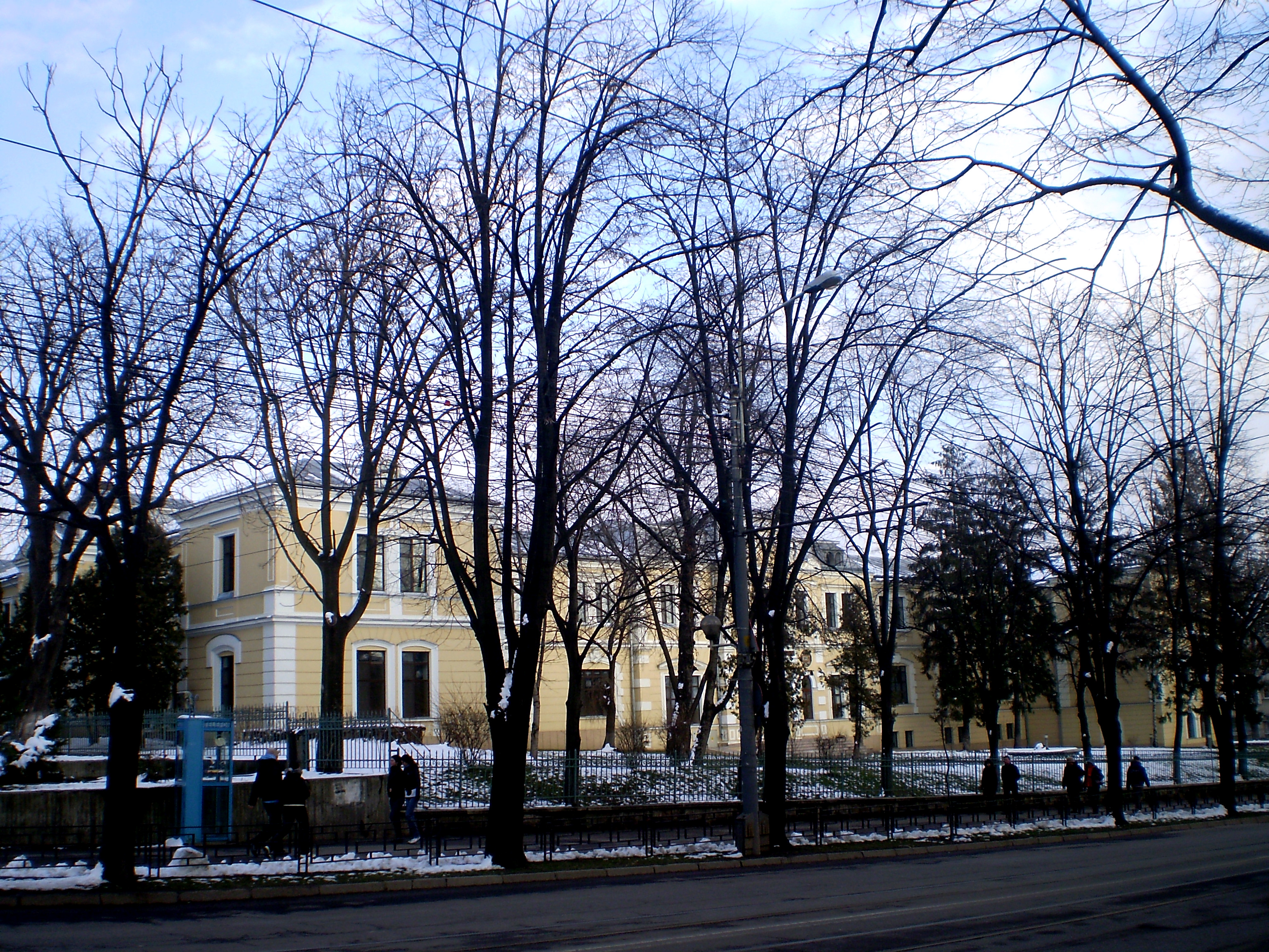 Former Military High School (original name , "Children of the Soldiers" School) , Iaşi , RomaniaRomână: Fostul liceu militar (Şcoala fiilor de militari) , Iaşi , Romania 01